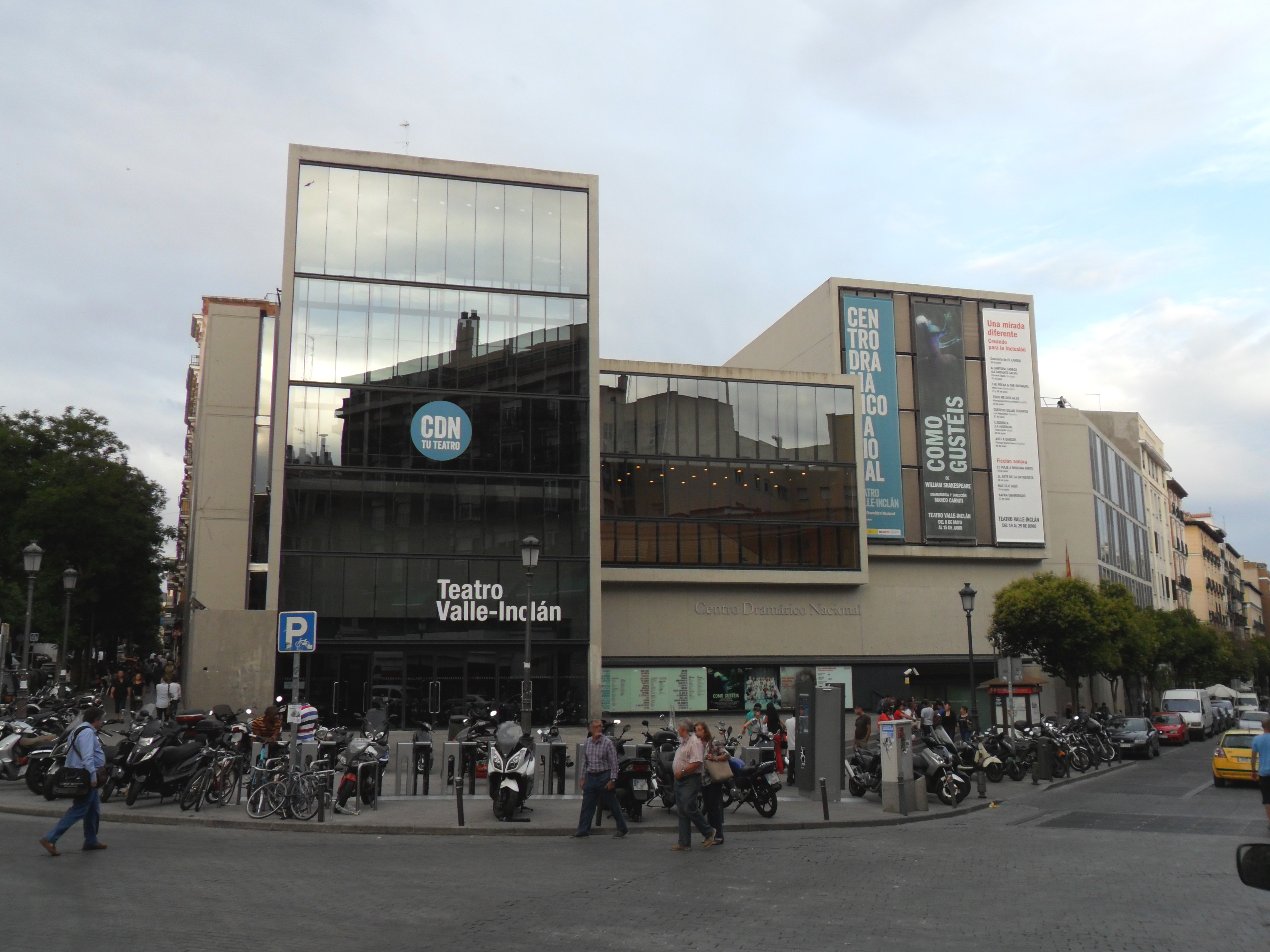 Façade of Teatro Valle-Inclán (a theater) in Centro district in Madrid (Spain).